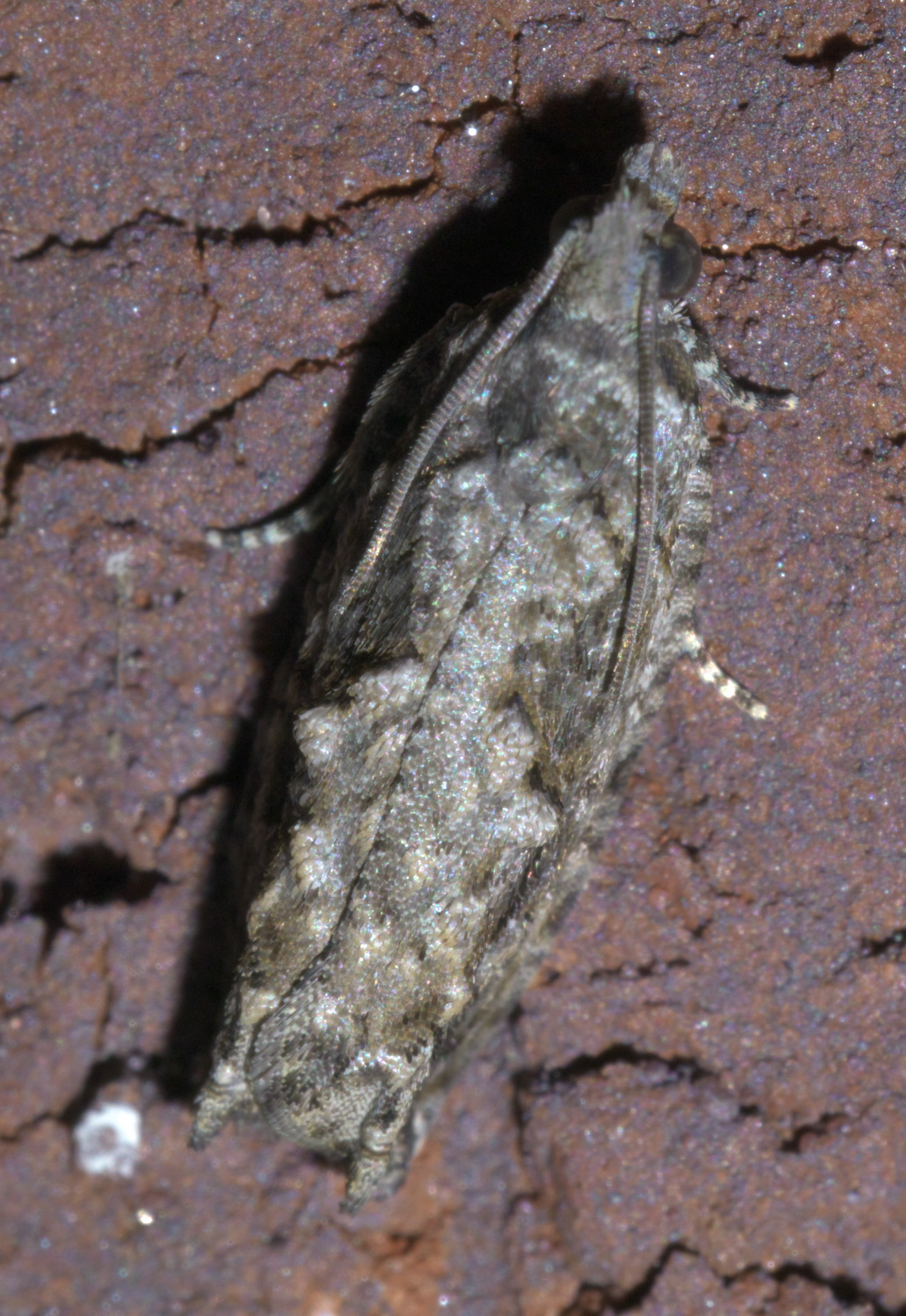 Gretchena bolliana, pecan bud moth, Size: 9.2 mm, ID Confidence: 88